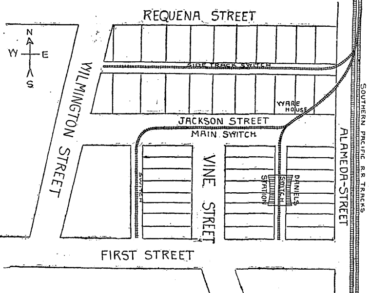 Map of proposed warehouse center in Los Angeles, California, 1899. Freight cars would be brought in from the Alameda Street tracks on the right and switched to the proper reception point in the complex. Clerks were to work at the Daniels Switch Station. Warehouse District